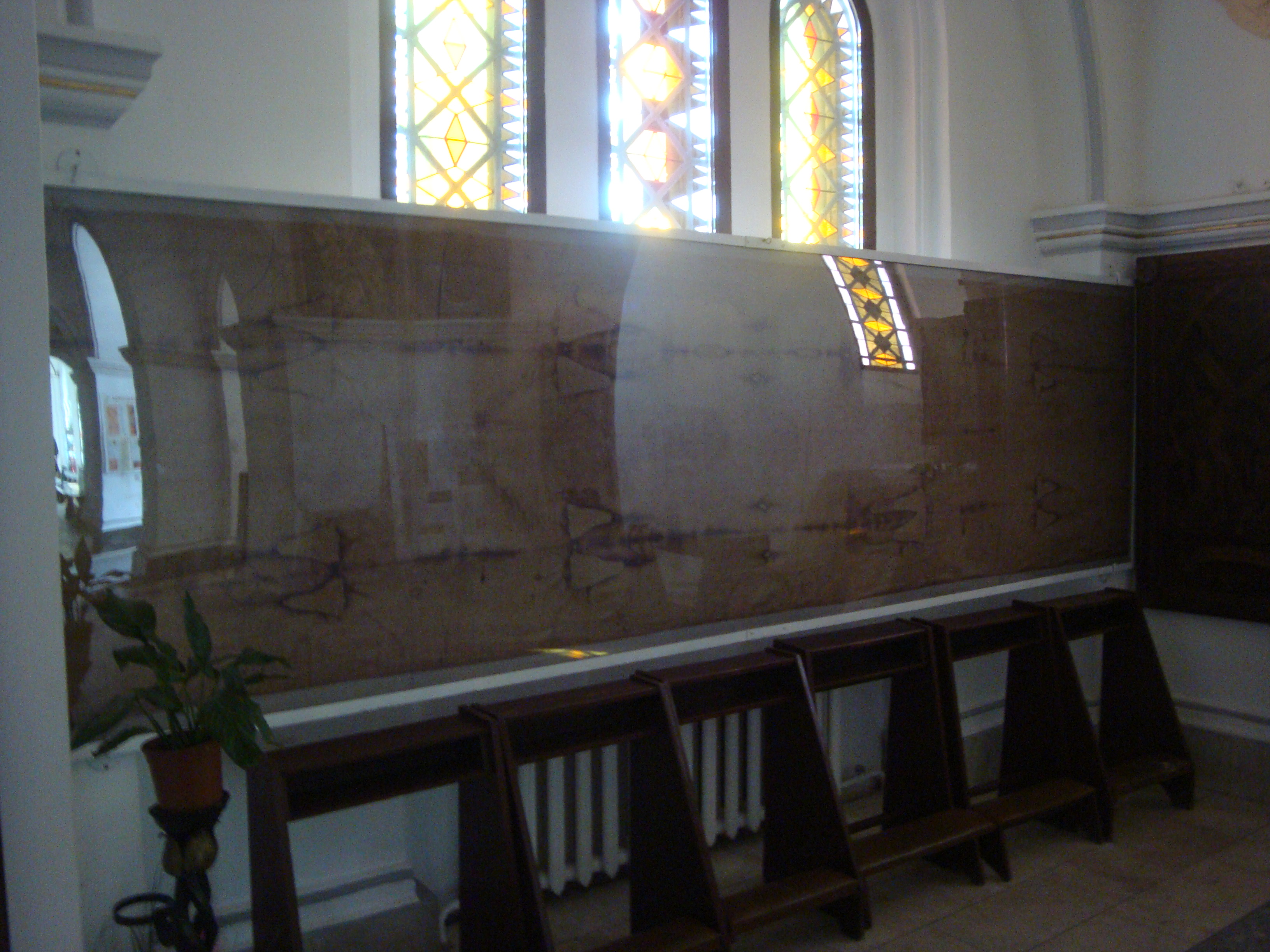 Photocopy of Shroud of Turin in Red Church in Minsk, 2013 AD